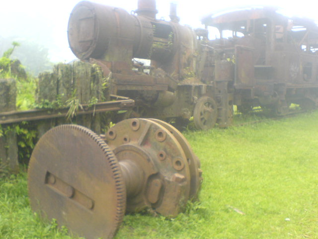 Locomotive in Paranapiacaba